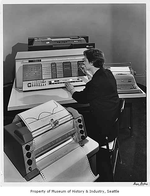 Creator: Dudley, Roger Description: The behavior of an elastic ball bounced on a hard surface is mathematically simulated by an IBM 1620 data processing system and visually traced by a CalComp digital plotter linked to the computer. This 'bouncing ball' problem is demonstrated daily in the 'Tools of Science' area of the U.S. Science Exhibit at the World's Fair. View source image . Part of King County Snapshots University of Washington Libraries . Brought to you by IMLS Digital Collections and Content . Unrestricted access; use with attribution.